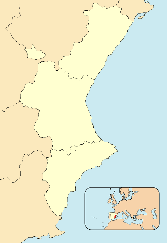 valencian country